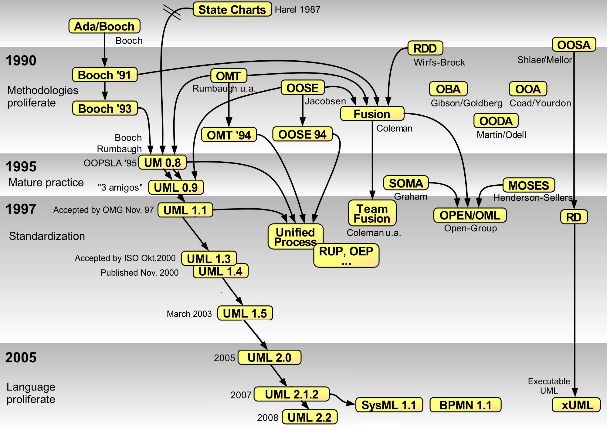 History of Object Oriented Modeling languages